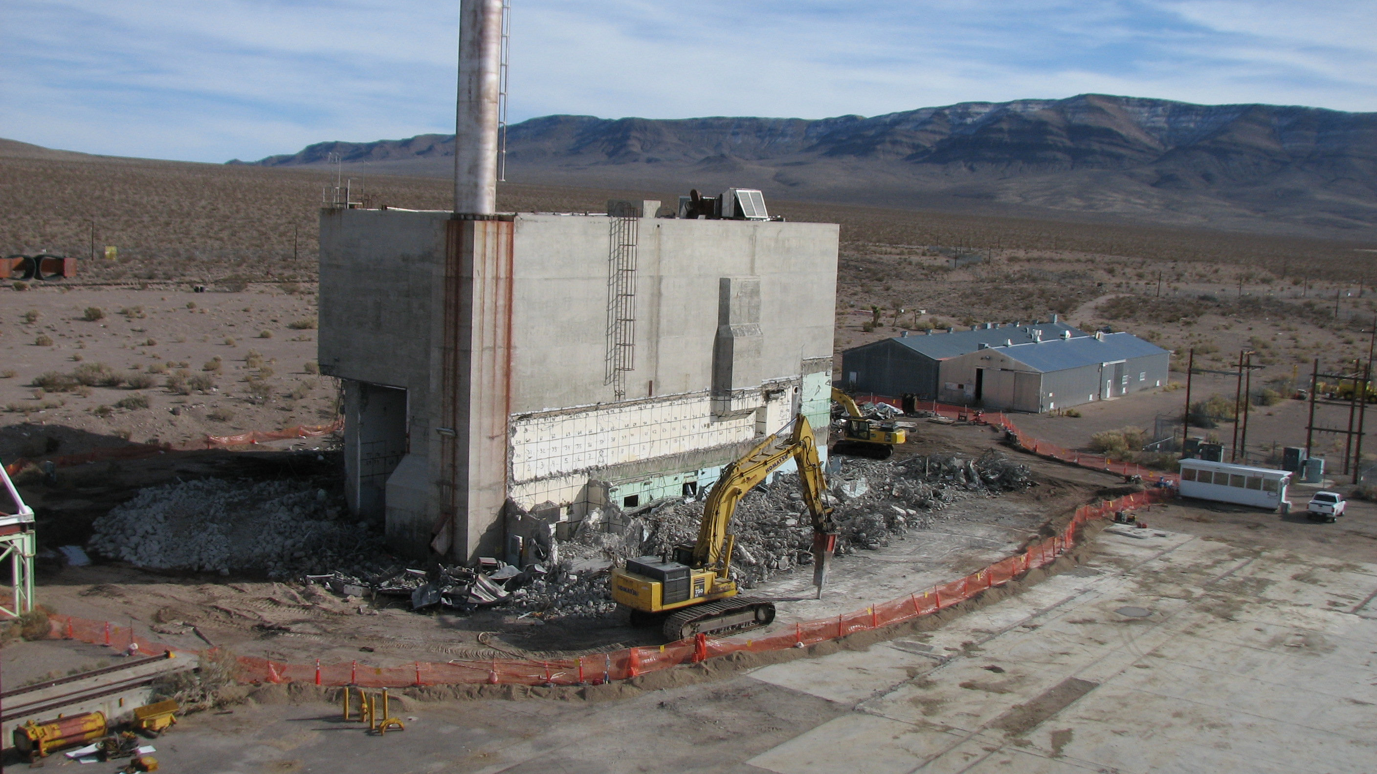 BOOM! That’s the sound of stimulus funding at work on the Nevada Test Site (NTS) demolishing the Reactor Maintenance, Assembly, and Disassembly (R-MAD) building. Decontamination and decommissioning (D&D) of R-MAD moved up in priority with the availability of American Recovery and Reinvestment Act funding and, in turn, this complex work generated more than 15 full-time positions.